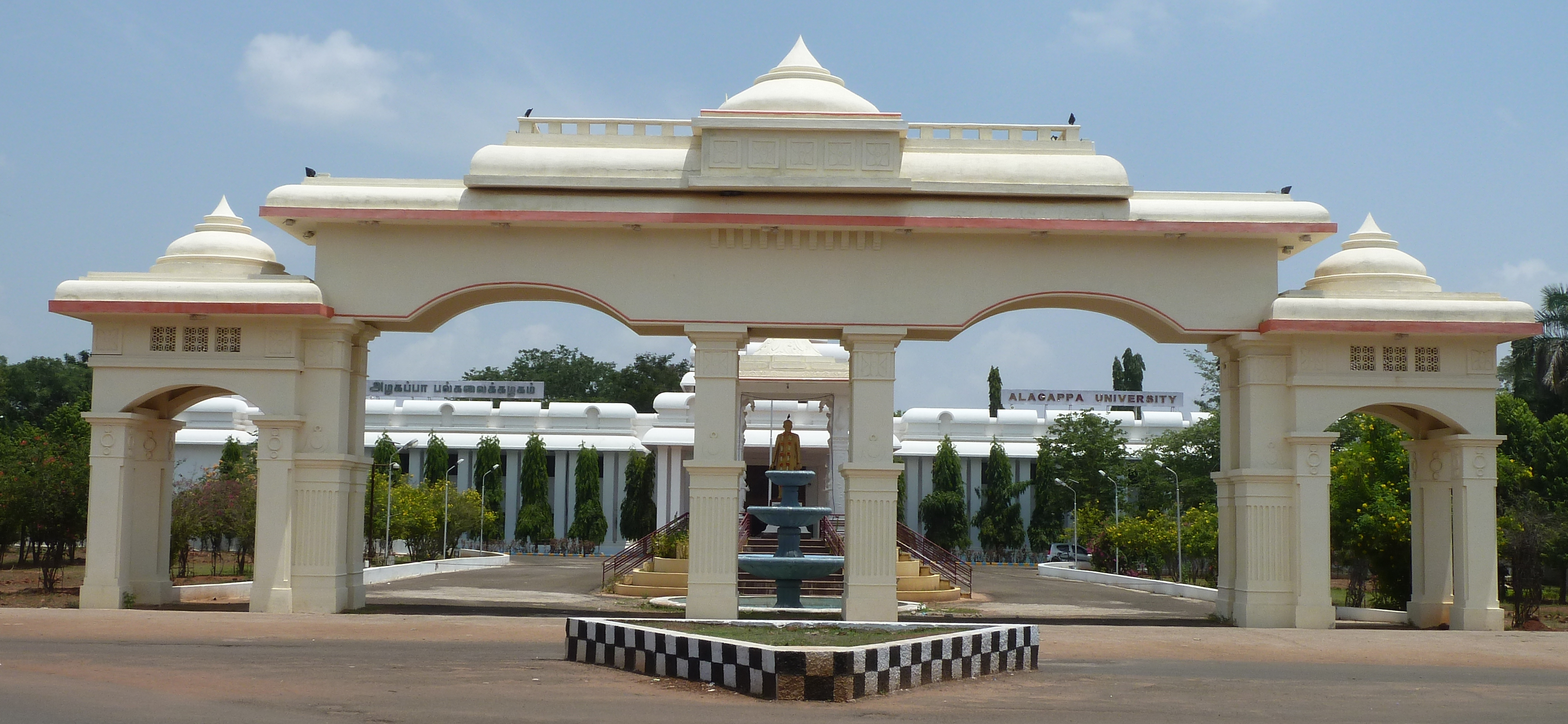 Entrance of Alagappa University, Karaikudi.